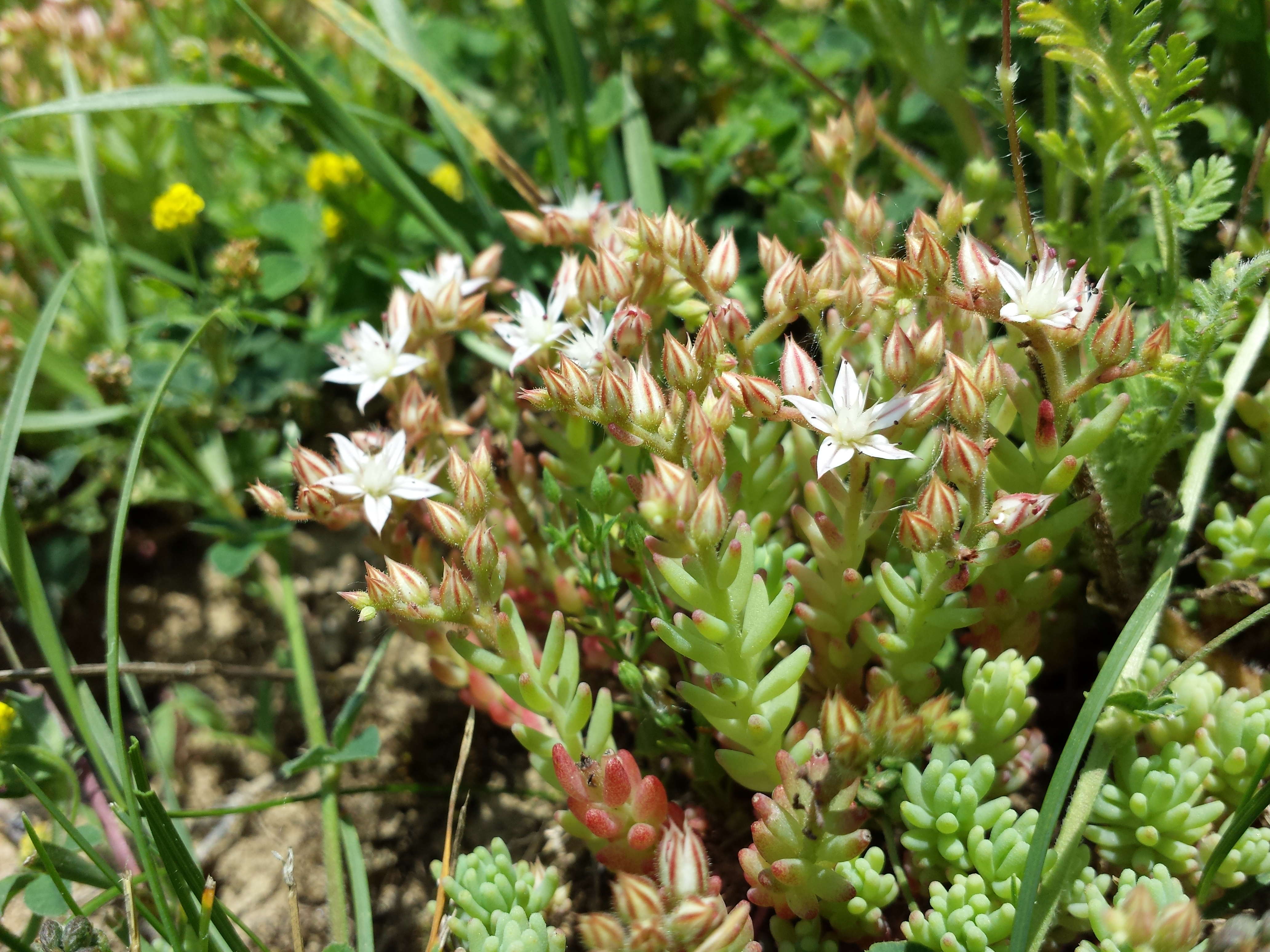 Habitus Taxonym: Sedum hispanicum ss Fischer et al. EfÖLS 2008 ISBN 978-3-85474-187-9; det. Gergely Király 2015-06-04 Location: Kemendollár, Zala County, Hungary - ca. 200 m a.s.l. Habitat: slope